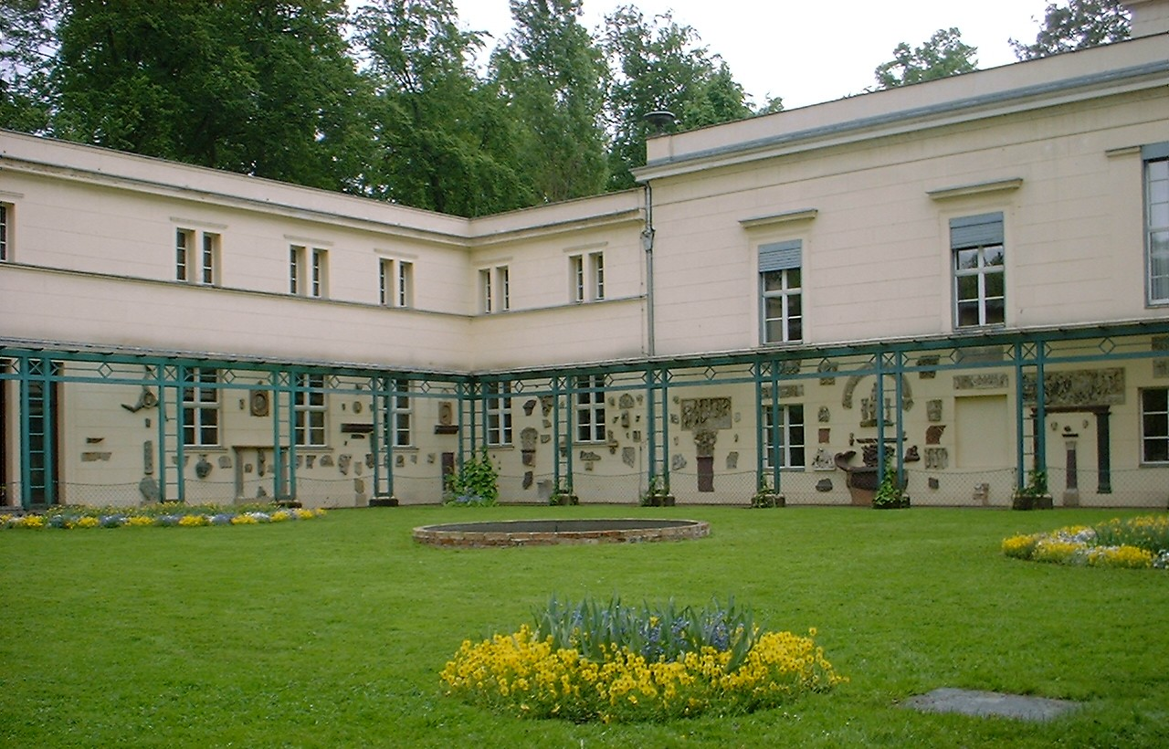 Spolia in the back side of Glienicke Palace in Berlin-Wannsee, Germany